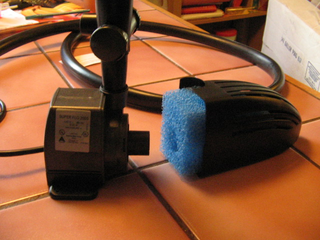 Pond filter device